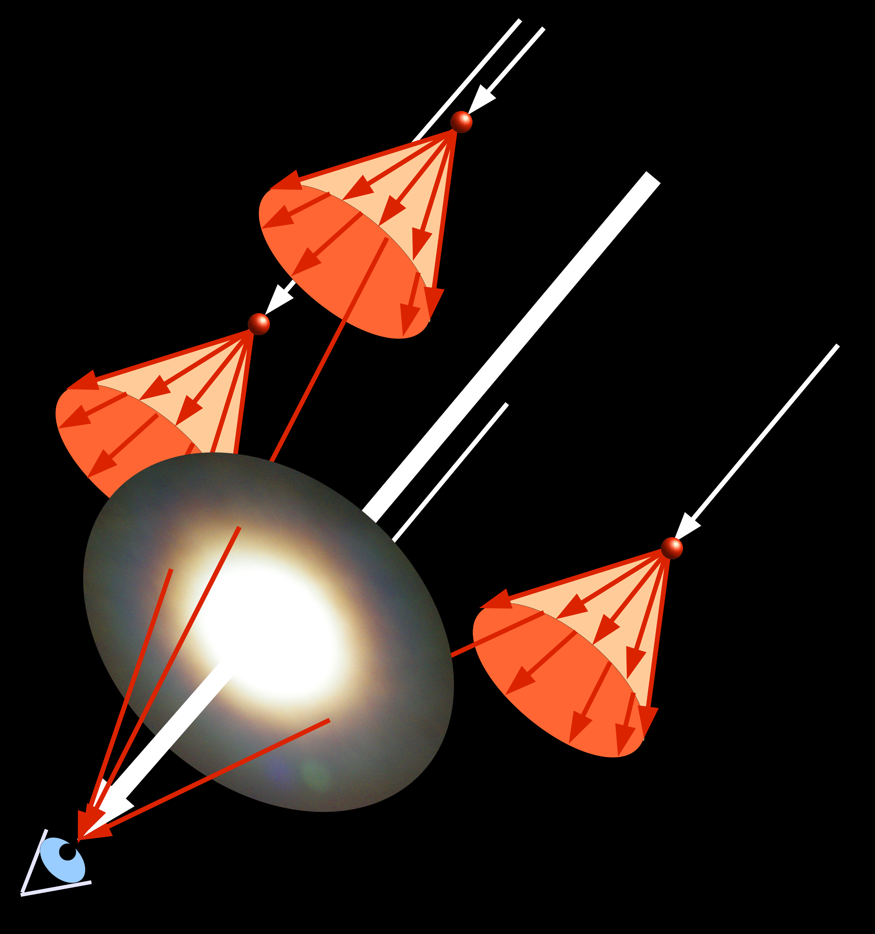 Corona around moon or sun resulted from light diffracted by waterdrops in the clouds. Each drop diffracted the light in the surface of a cone. From each cone a person only views the light which reaches his eye. As all cones have the same opening angle, the light one sees seems to come from a ring. So coronae have the form of rings around the moon.